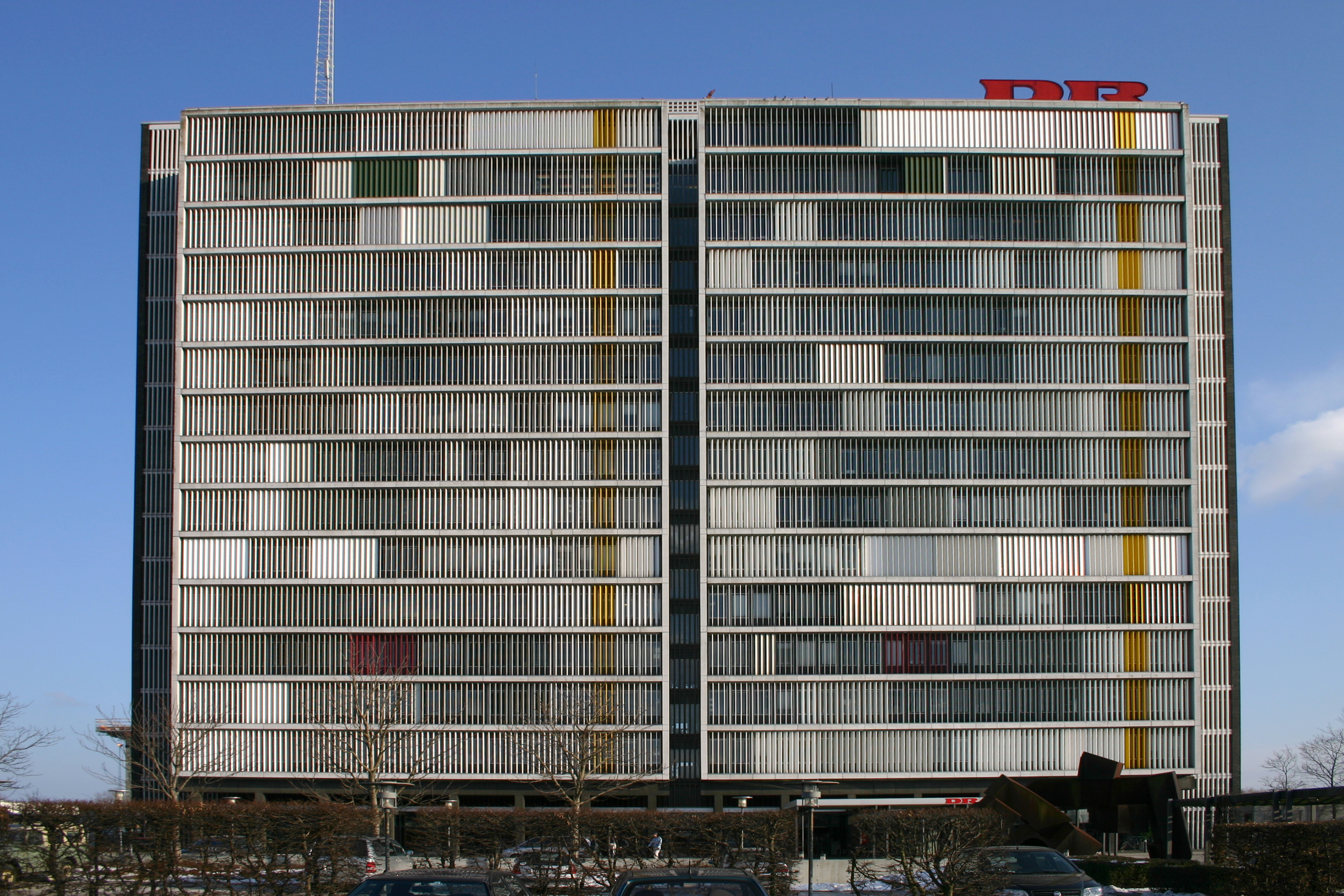 TV-Byen in Copenhagen. Home of Danmarks Radio.